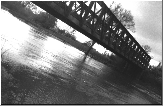 Martincourt sur Meuse's bridge